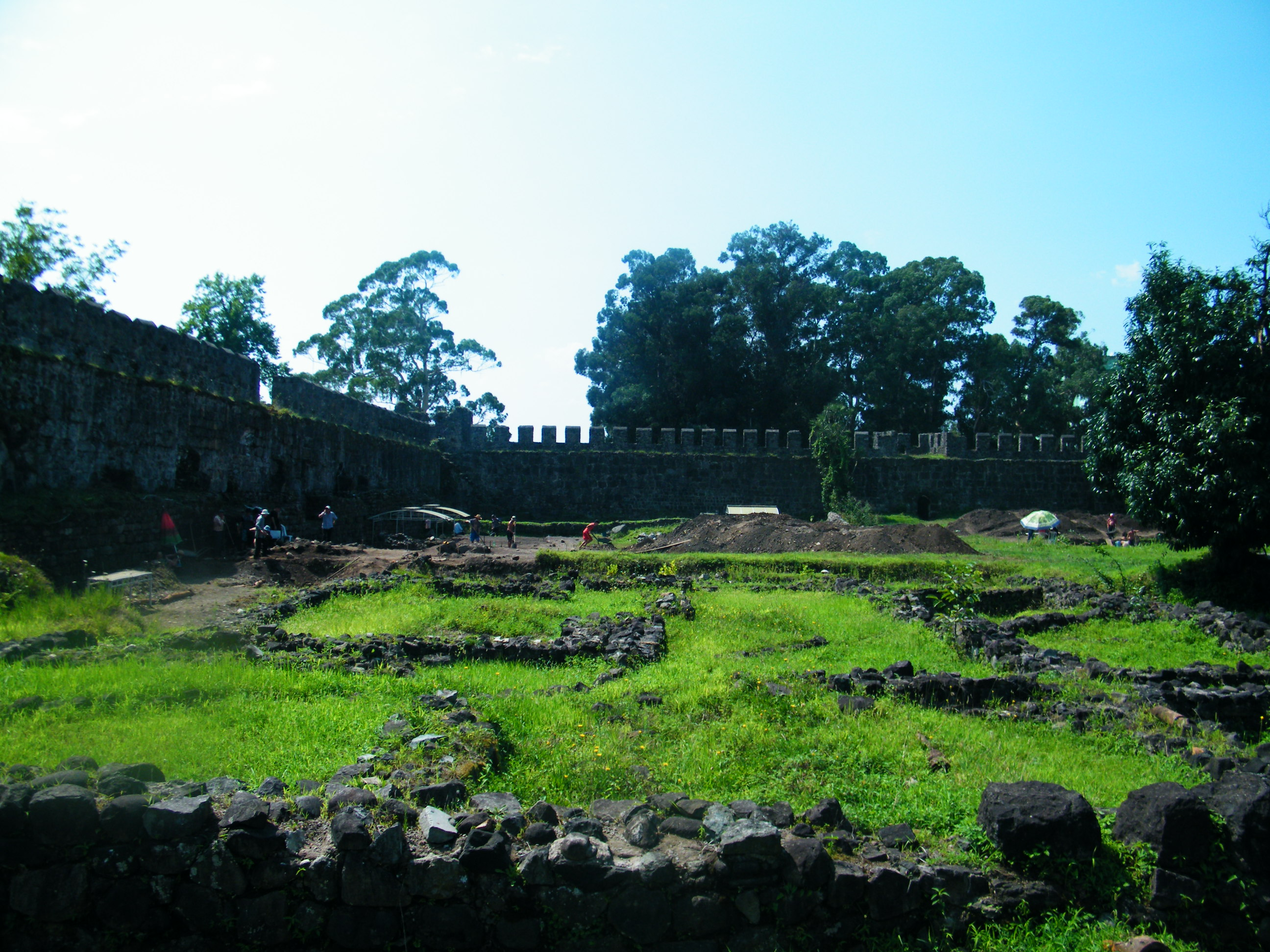 Archaeological excavations in Gonio